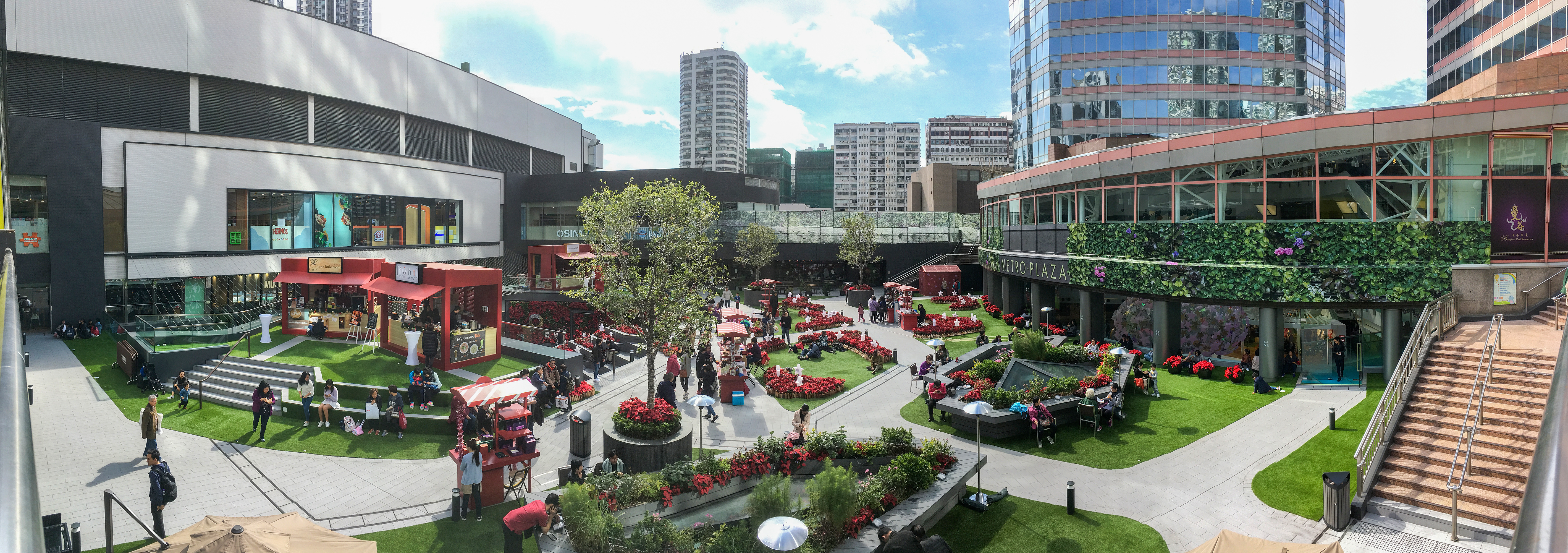 Metroplaza outdoor podium after renovation